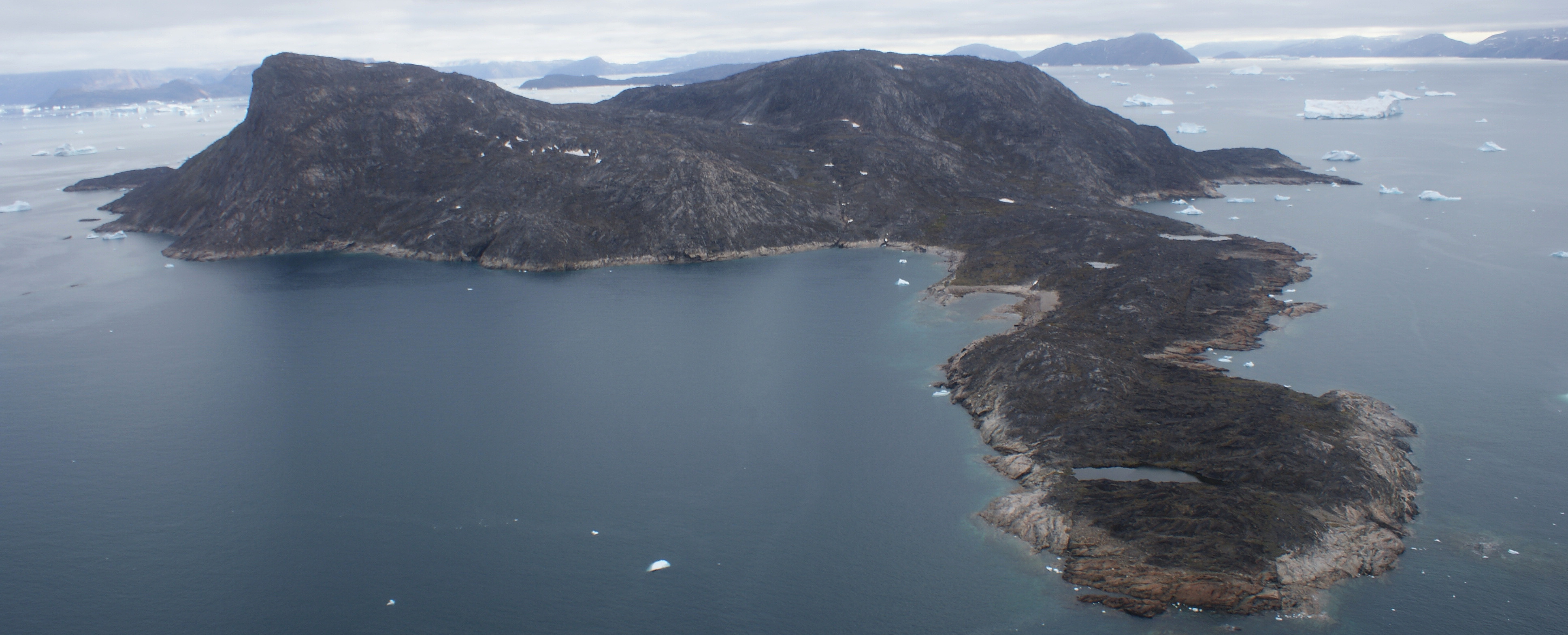 Aerial view of Timilersua Island, Sugar Loaf Bay, Upernavik Archipelago, Greenland. Photographed in poor visibility conditions from the Air Greenland Bell 212 helicopter during the Upernavik-Kullorsuaq flight.